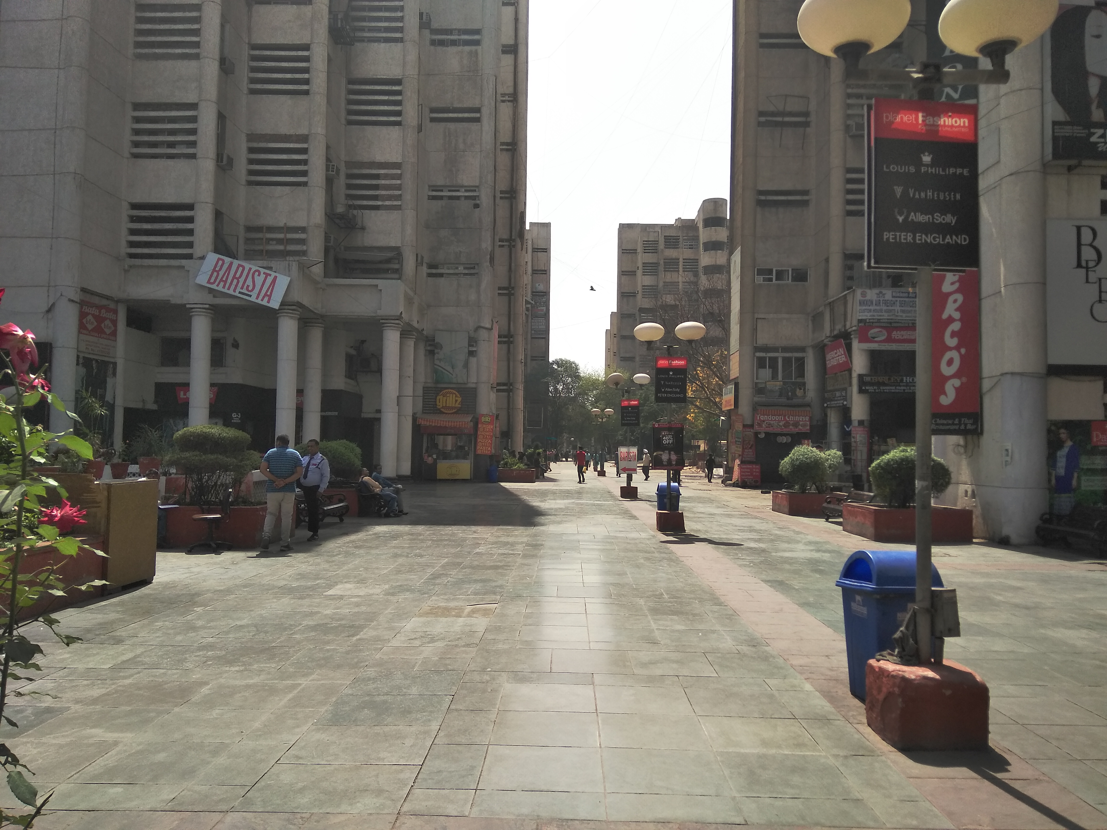 Janakpuri District Center